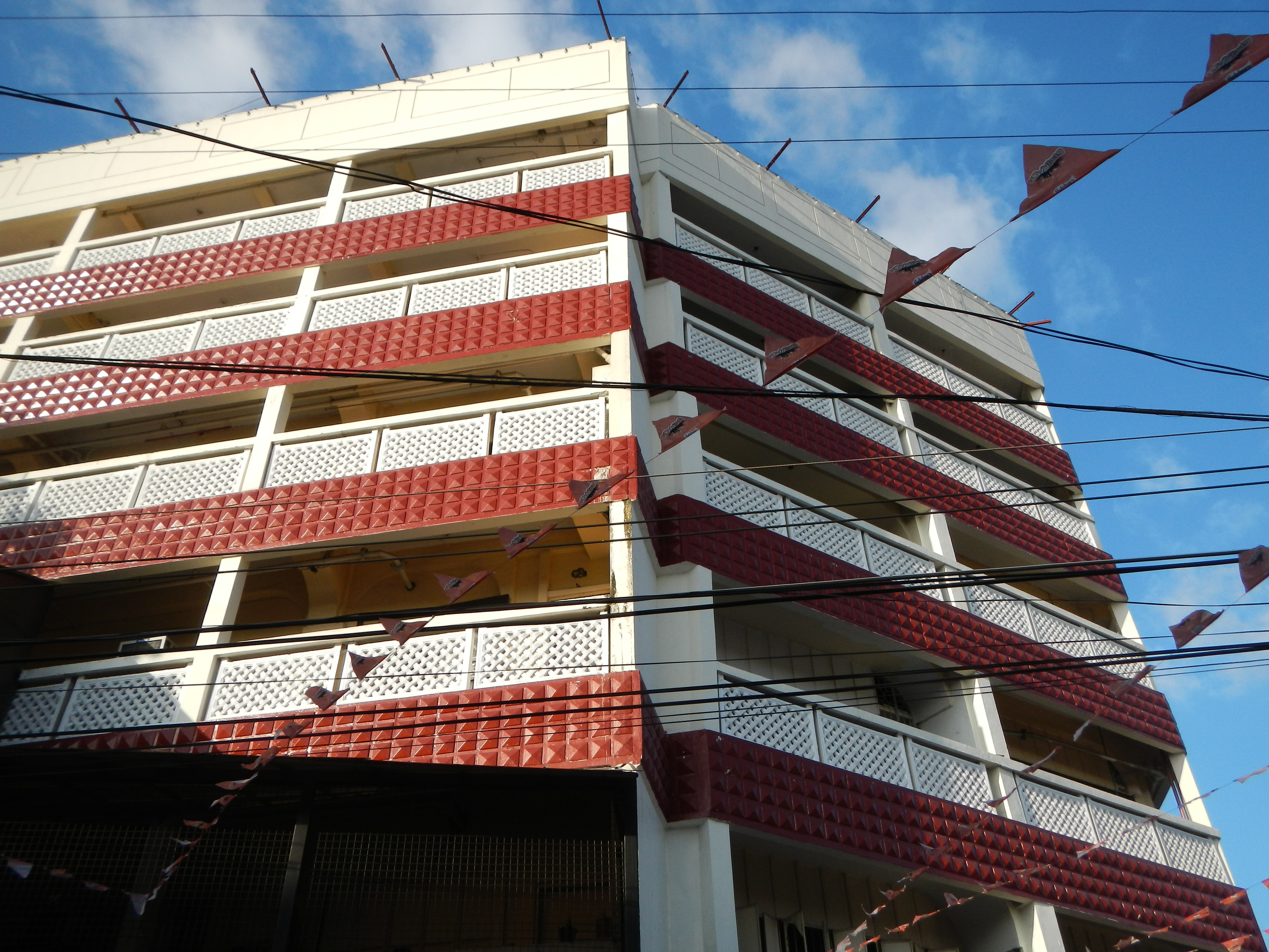 Upload Wizard photos of Marikina City [1] Hall Complex Compound -- a) Bulwagan ng Katarungan housing the Police station, the Courts of Law and the Legislative department, or Sangguniang Bayan Session Hall, the CICL Building Marikina Youth Homes, Social Hall Department building City Hall Complex Compound, b) Pentecostal Missionary Church of Christ (4th Watch) [2] and c) National Christian Life College [3] (NCLC), formerly the Maranatha Christian Academy.